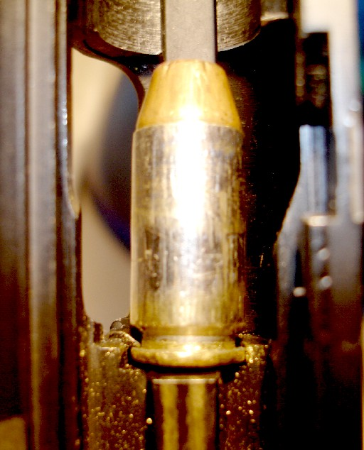 A 40 Smith & Wesson pistol cartridge shown held by the extractor of a Beretta 8040 pistol.